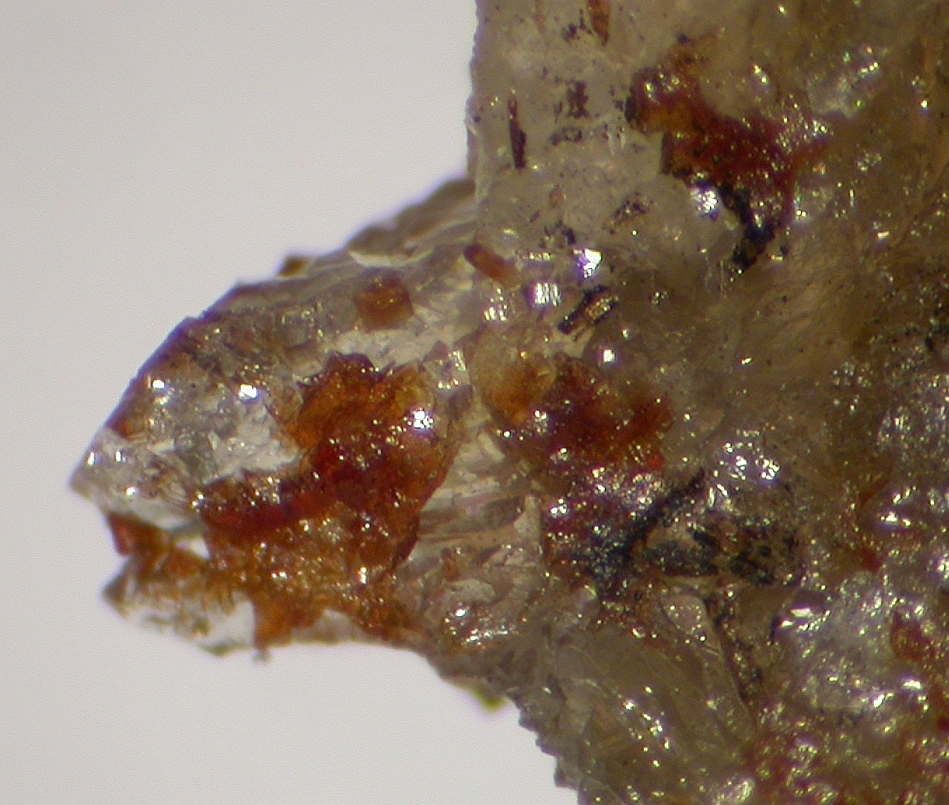 Rappoldite Locality: Rappold Mine, Neustädtel, Schneeberg District, Erzgebirge, Saxony, Germany Field of view 3 mm